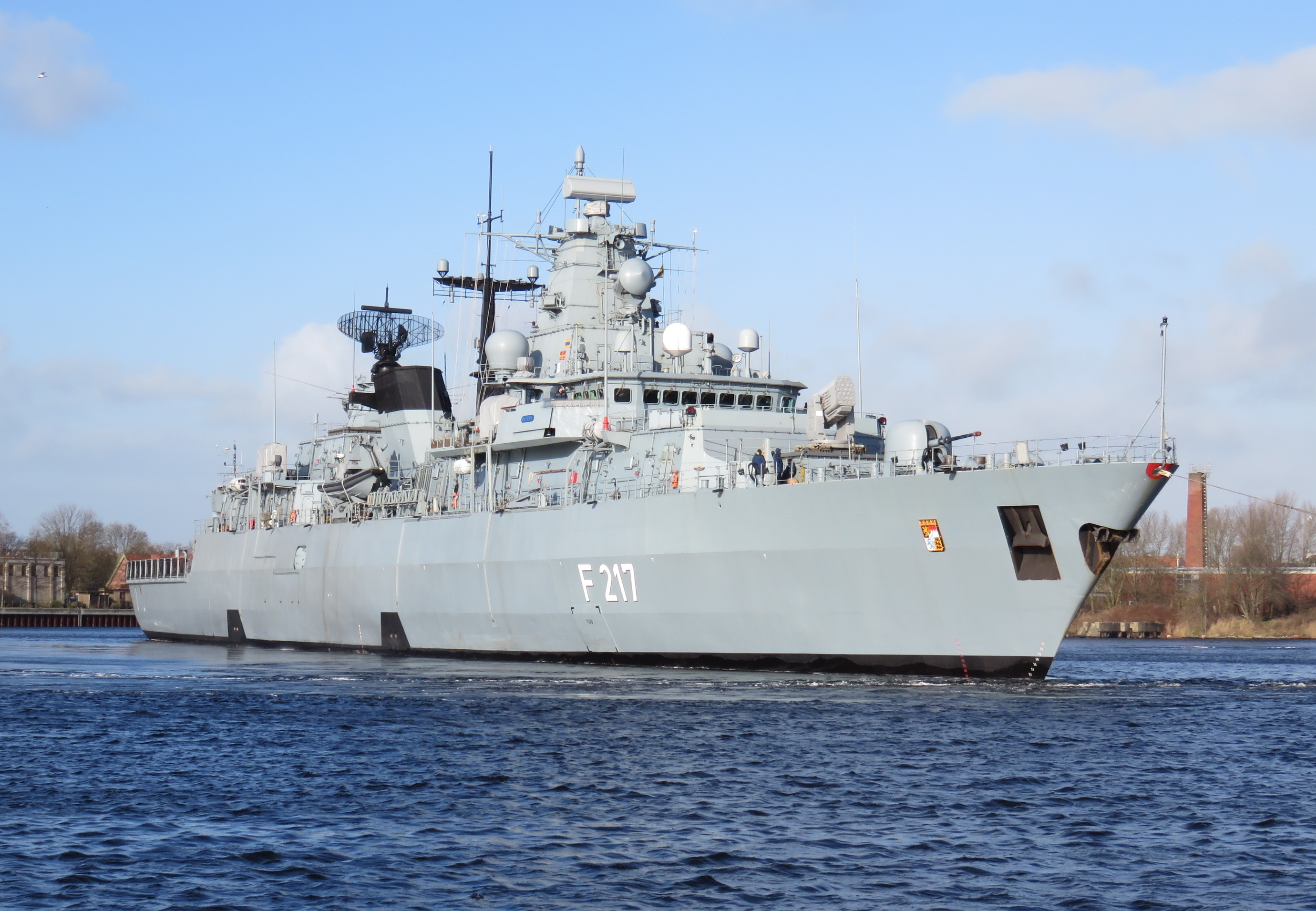 German frigate Bayern at the deperming range in Wilhelmshaven